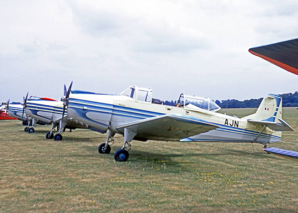 Nord 3202B No. 95 of the French Army ALAT at Middle Wallop AAC airfield Hants UK in 1969